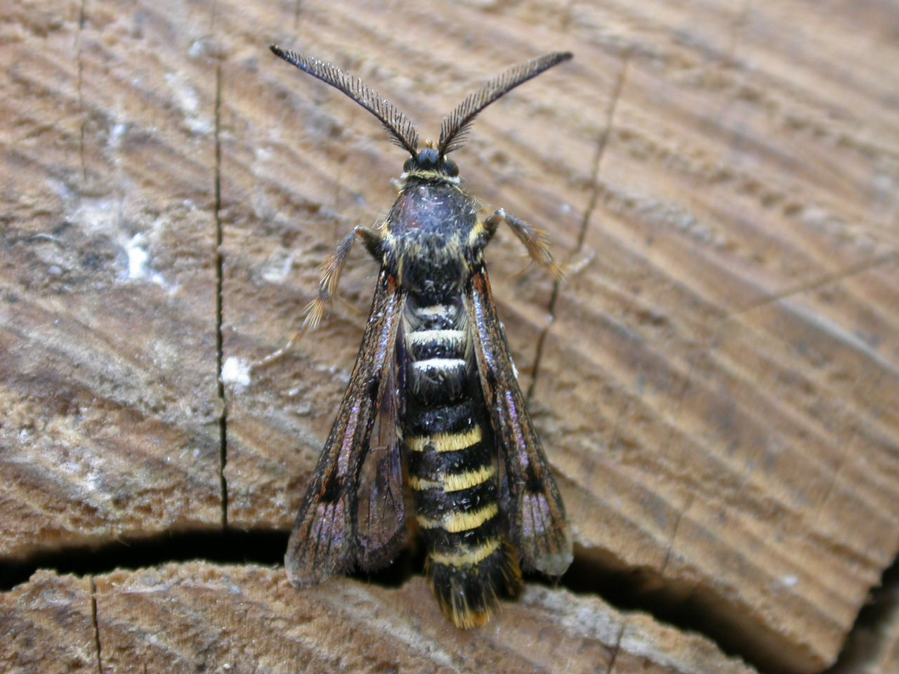 Pennisetia hylaeiformis, to pheromone lure, Hellerup, Denmark, 31 July 2003